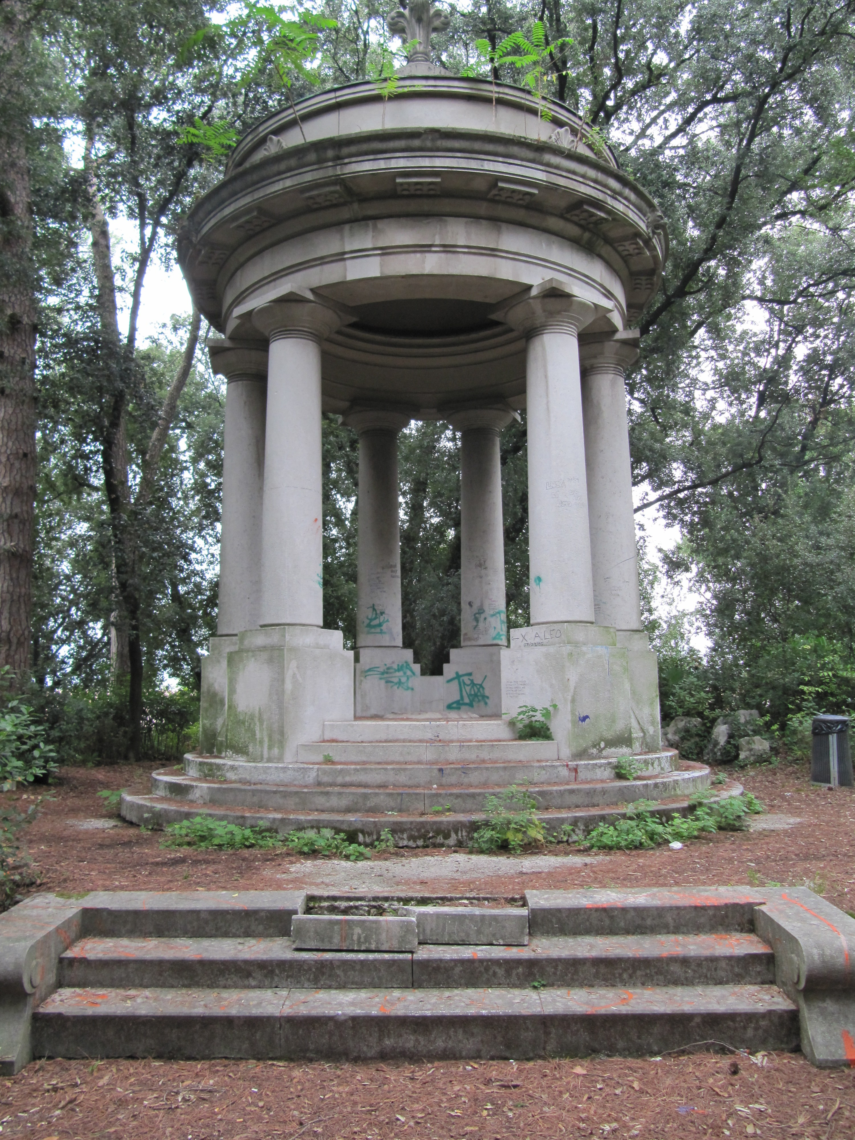 temple in Parco Coronini